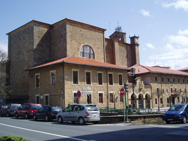 Franciscan Convent of Zarautz (Gipuzkoa).